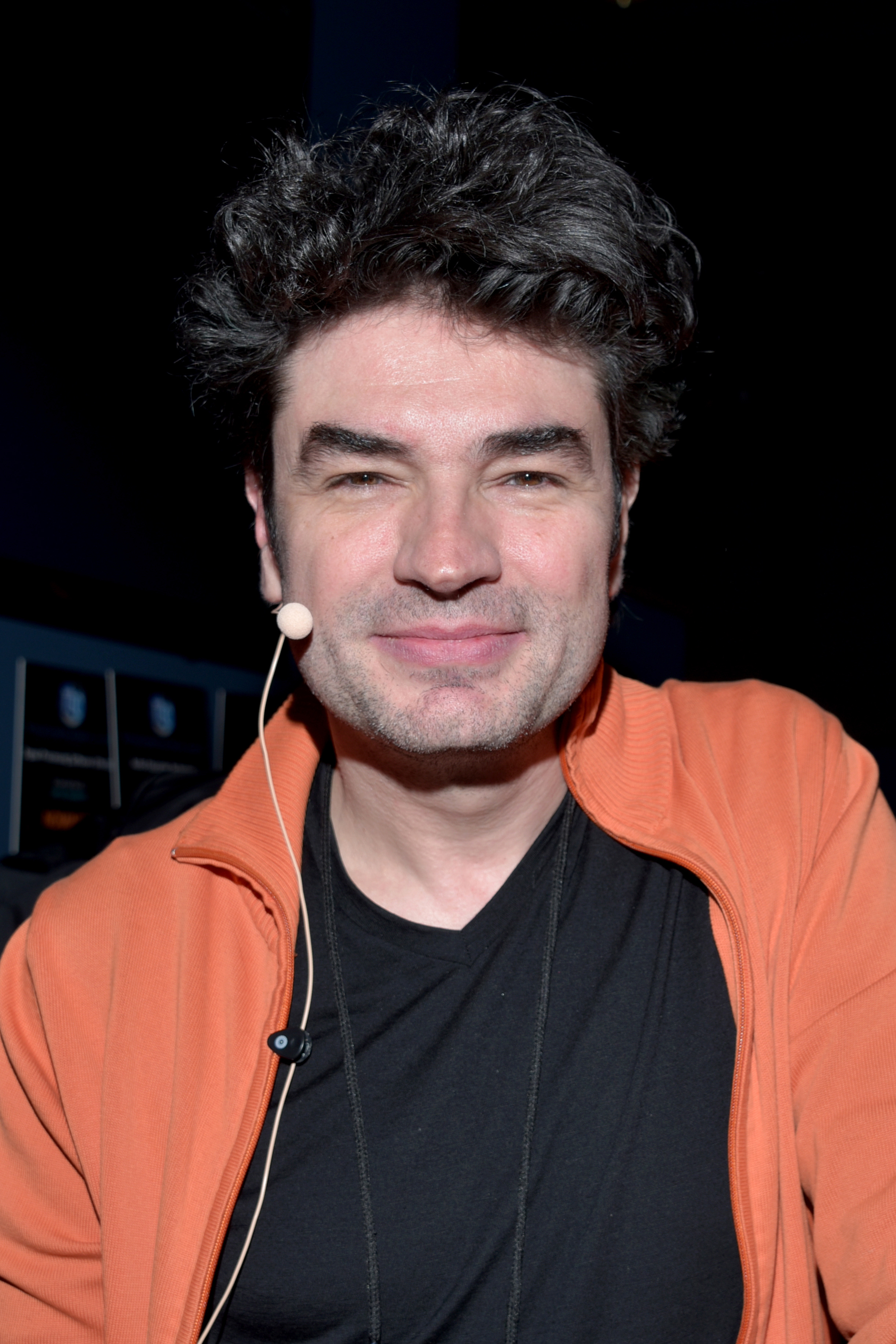 DJ Fabrice Dupont at 'The NAMM Show' on January 17, 2020 in Anaheim, California - Photo by Glenn Francis of